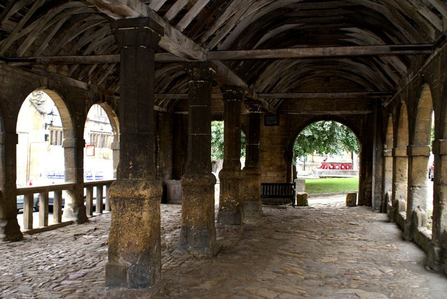 Interior of Market Hall, Chipping Campden, Gloucestershire. This gabled Jacobean Cotswold stone market hall has five wide arches on each side and two at each end. The hall has an uneven stone floor and timber beams and rafters support the stone roof. Sir Baptist Hicks had the market hall built in 1627 to provide shelter for local fresh produce traders and the building carries his coat of arms. It has been owned by the National Trust since 1942 and has been re-roofed and repaired since then.